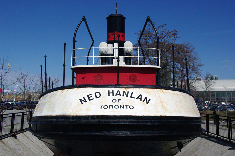 Stern of Ned Hanlan Steam Tug at Canadian National Exhibition grounds.